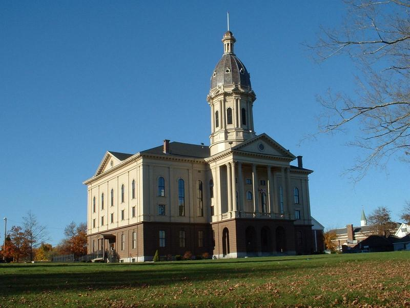 The Middleborough Town Hall, Middleborough, Mass.